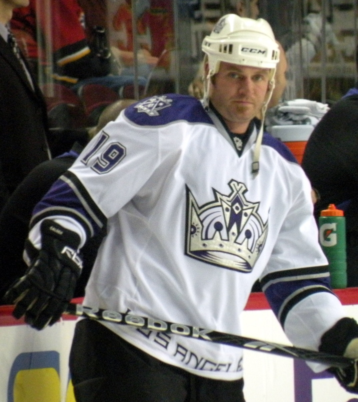 Los Angeles Kings forward Kyle Calder during warmup prior to a National Hockey League game against the Calgary Flames in Calgary.